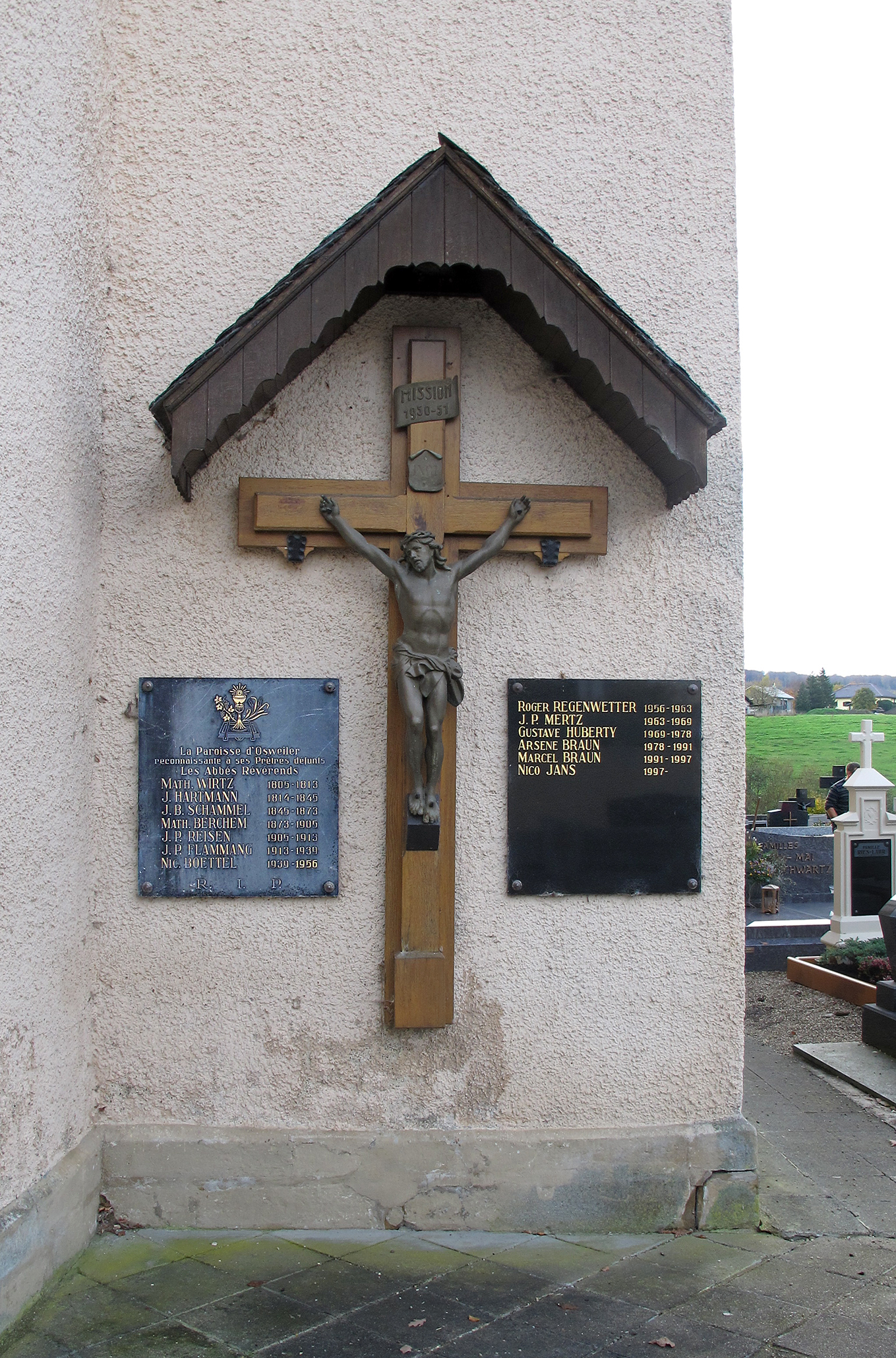 List of pastors since 1805 on the outside of the church in Osweiler, Luxembourg